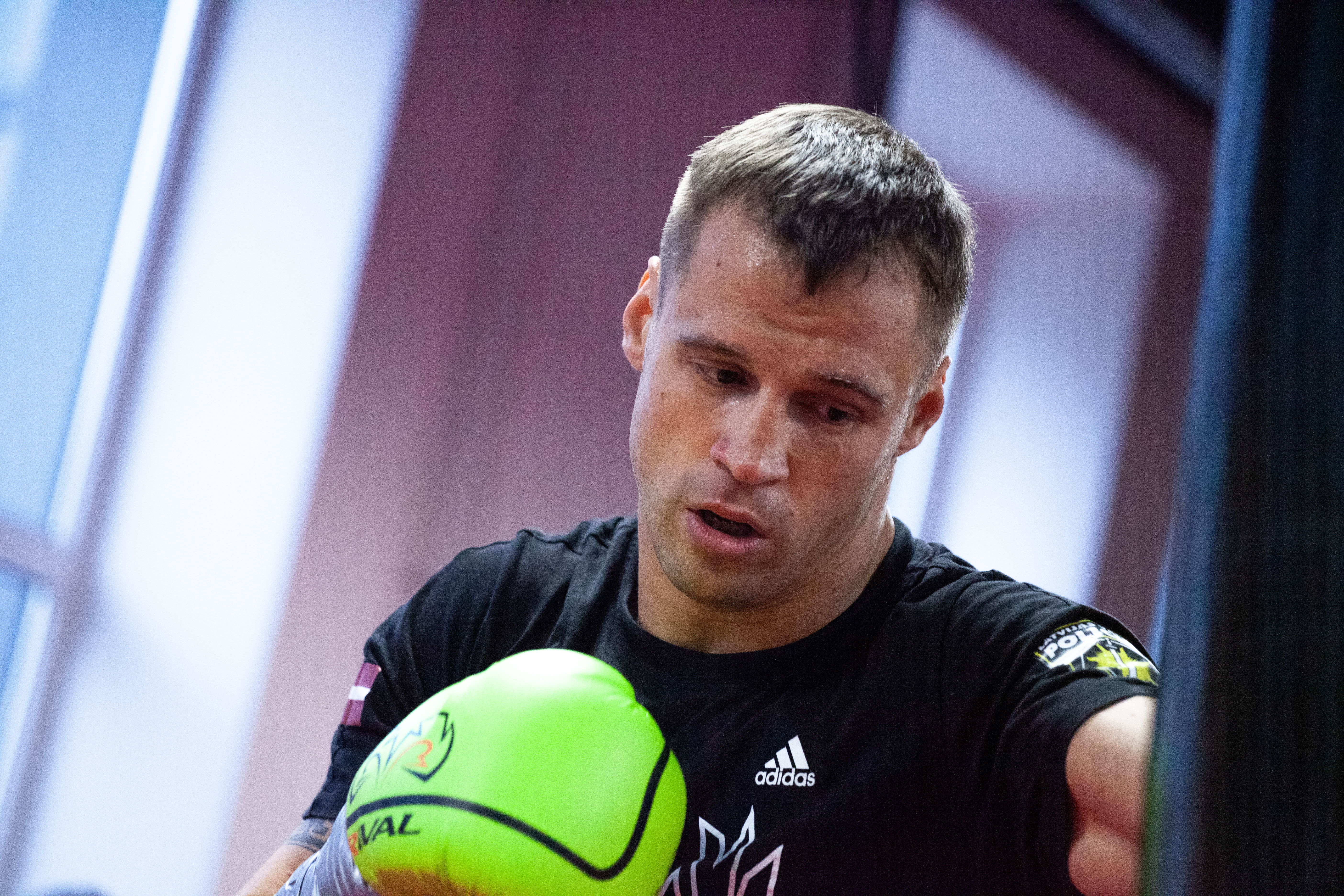 Mairis Briedis is a Latvian professional boxer. He is the first Latvian to win a boxing world title, having held the WBC cruiserweight title from April 2017 to January 2018. Picture is from his last public training for media in Latvia, 11 days before the fight against Noel Gevor